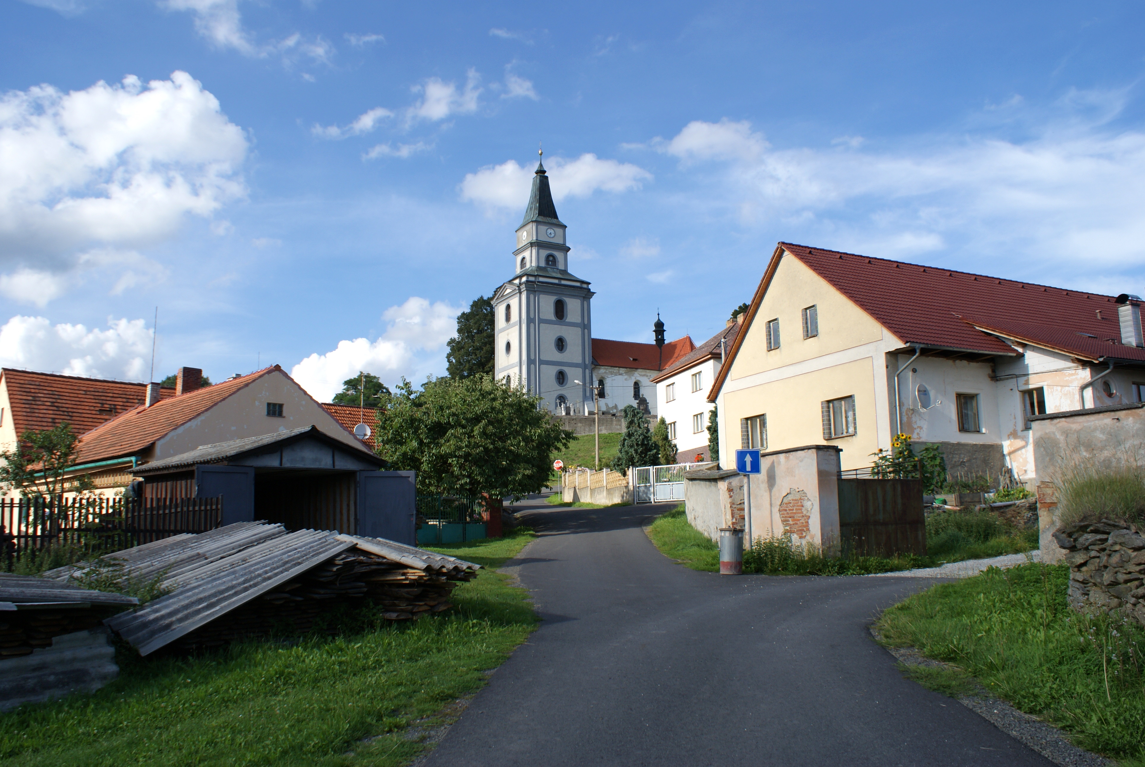 Předslav, a village in Klatovy District, Czech Republic, the church.